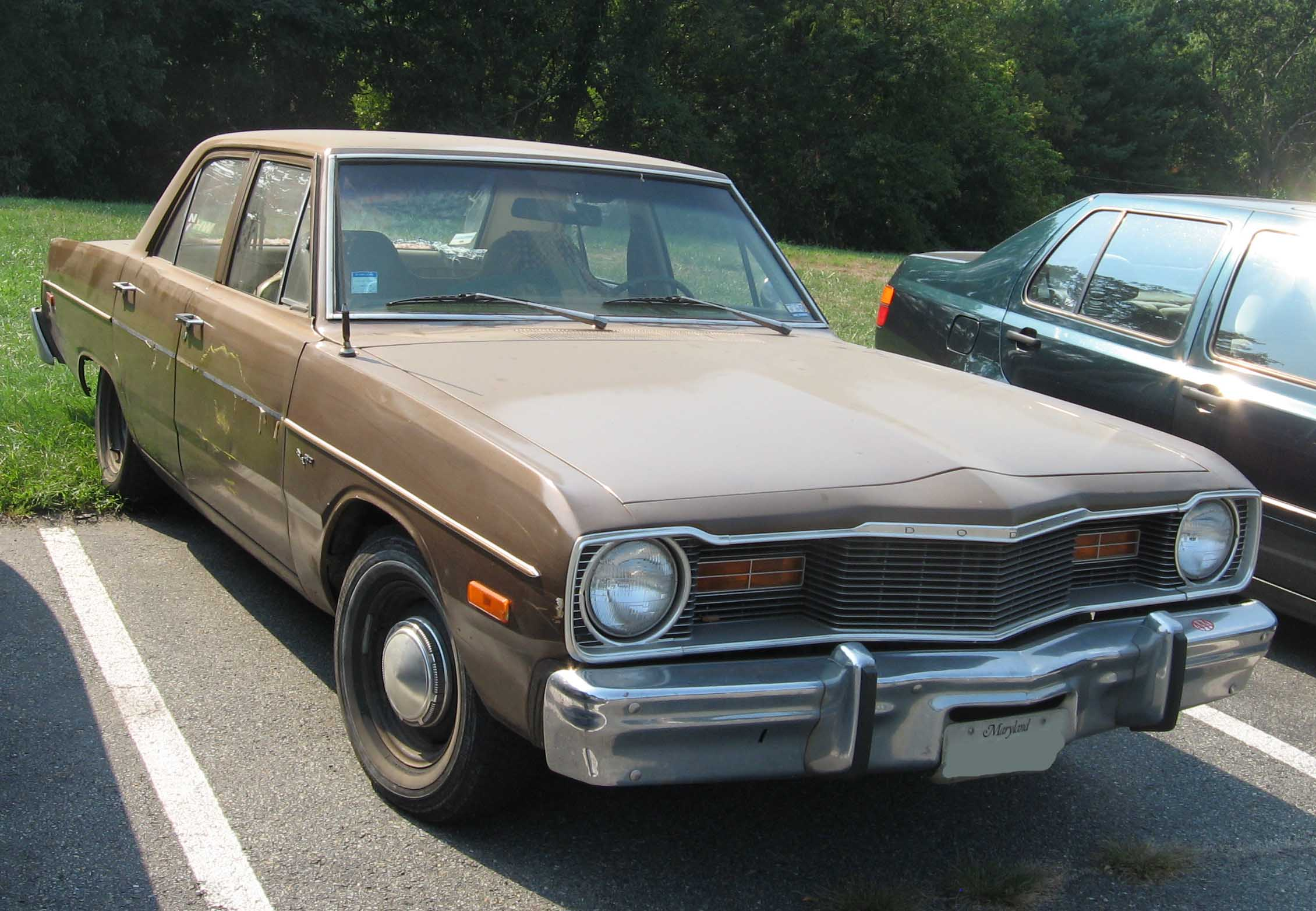 1976 Dodge Dart photographed in Silver Spring, Maryland, USA.